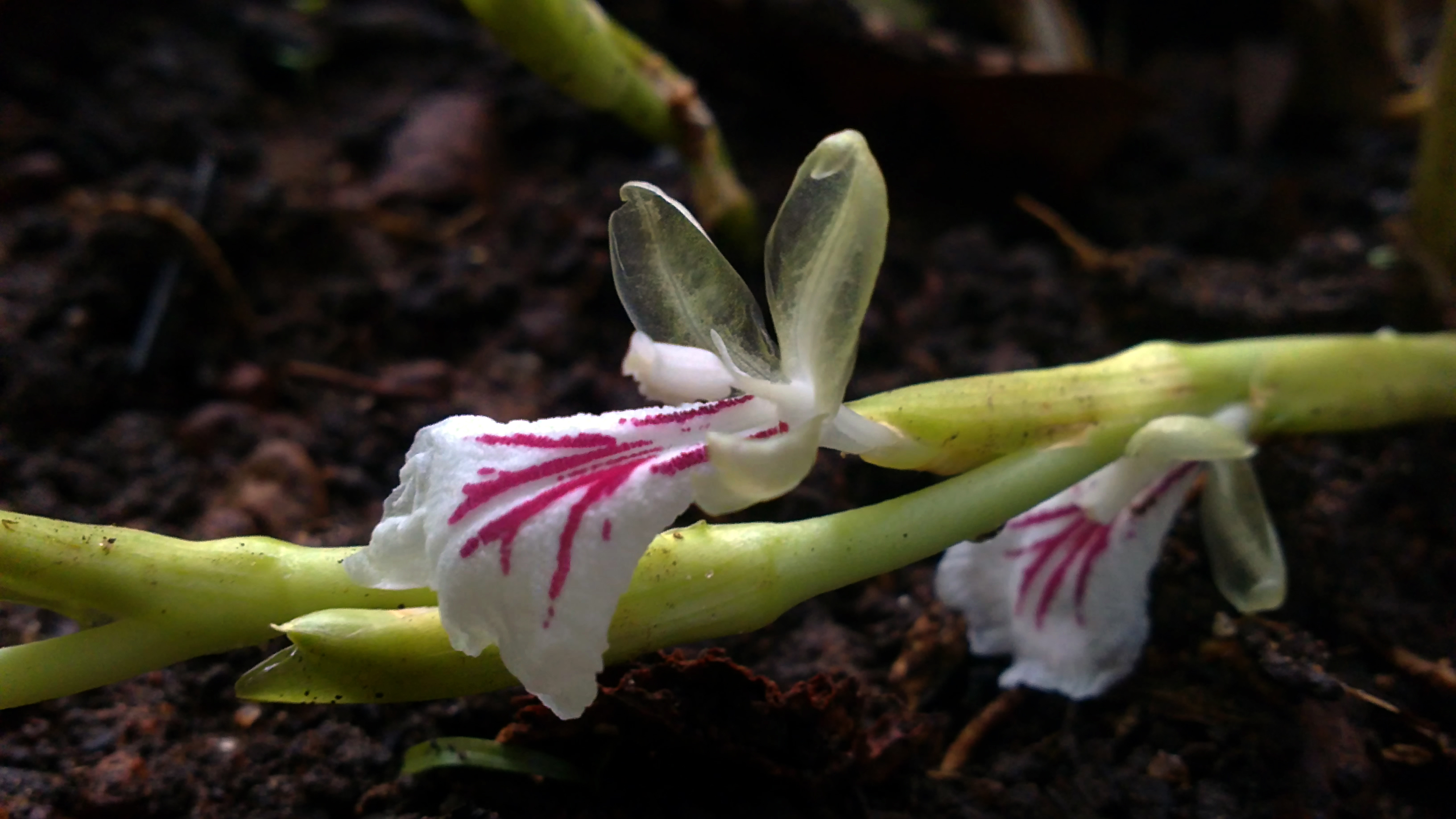 Cardamom Flower